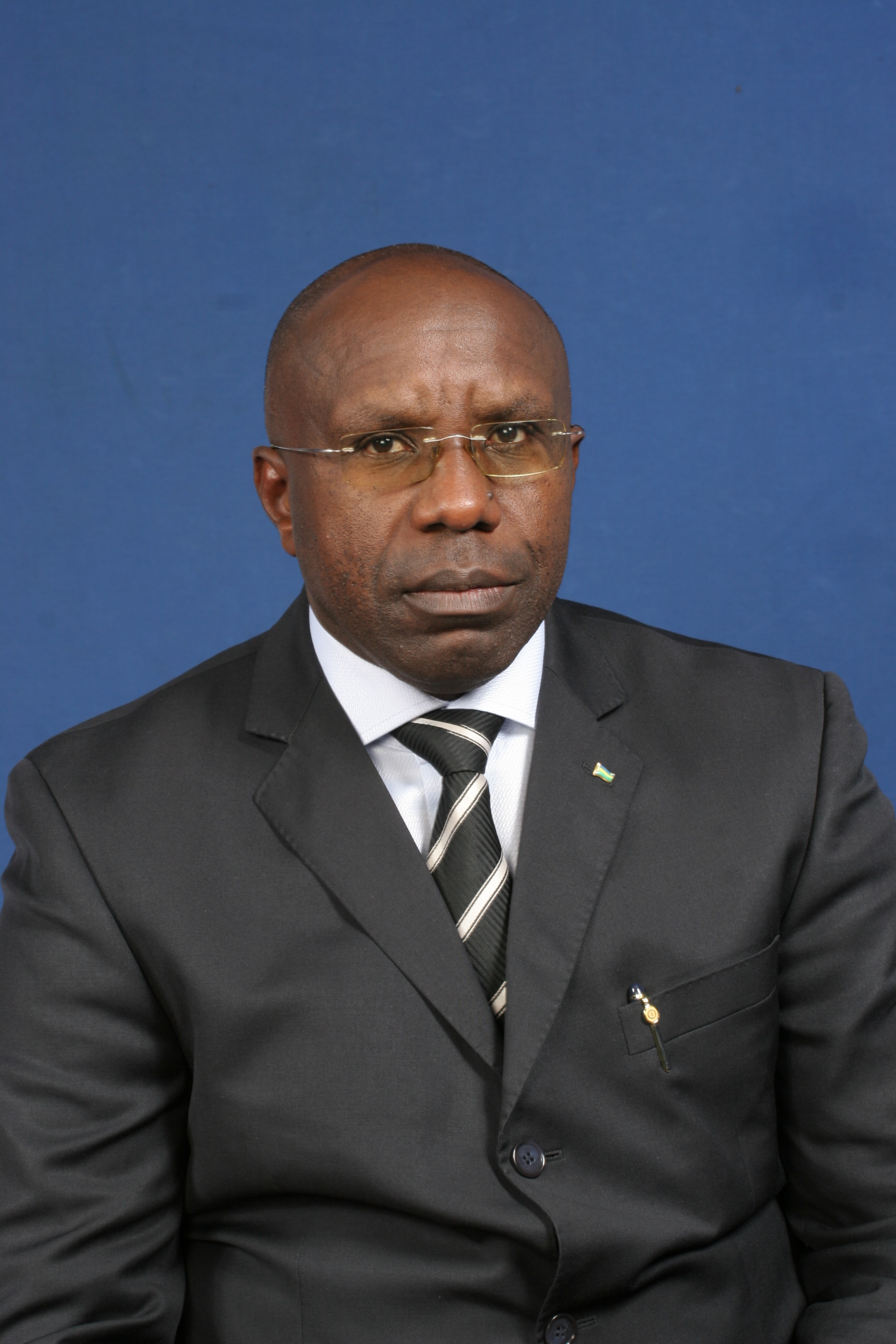 Pierre Damien Habumuremyi, Prime Minister of Rwanda (2011-present)